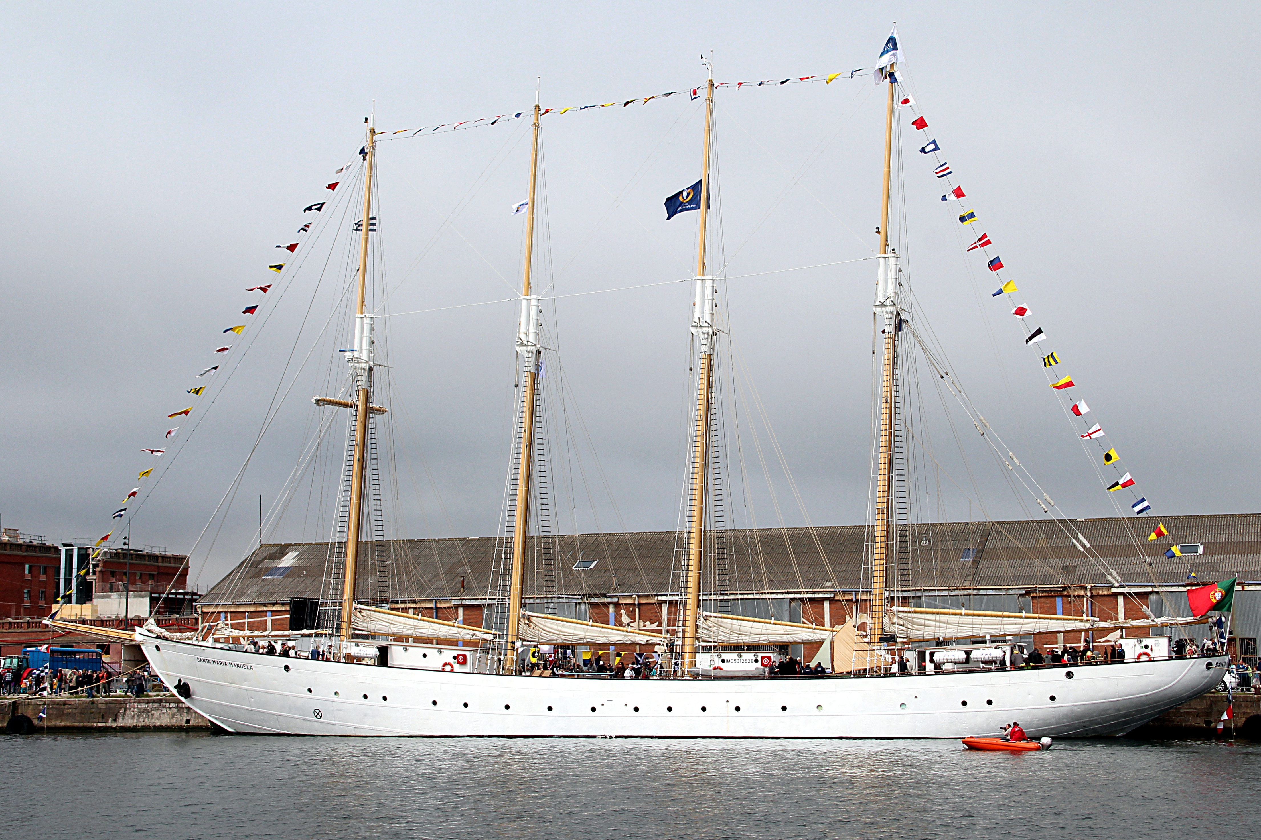 The four-masted schooner portguese Santa Maria Manuela, built by Companhia União Fabril of Lisbon (Portugal). Photograph taken on June 1, 2013 during the large maritime gathering in Dunkirk.